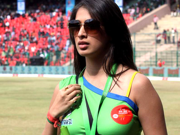 Laxmi Rai spotted at Celebrity Cricket League.